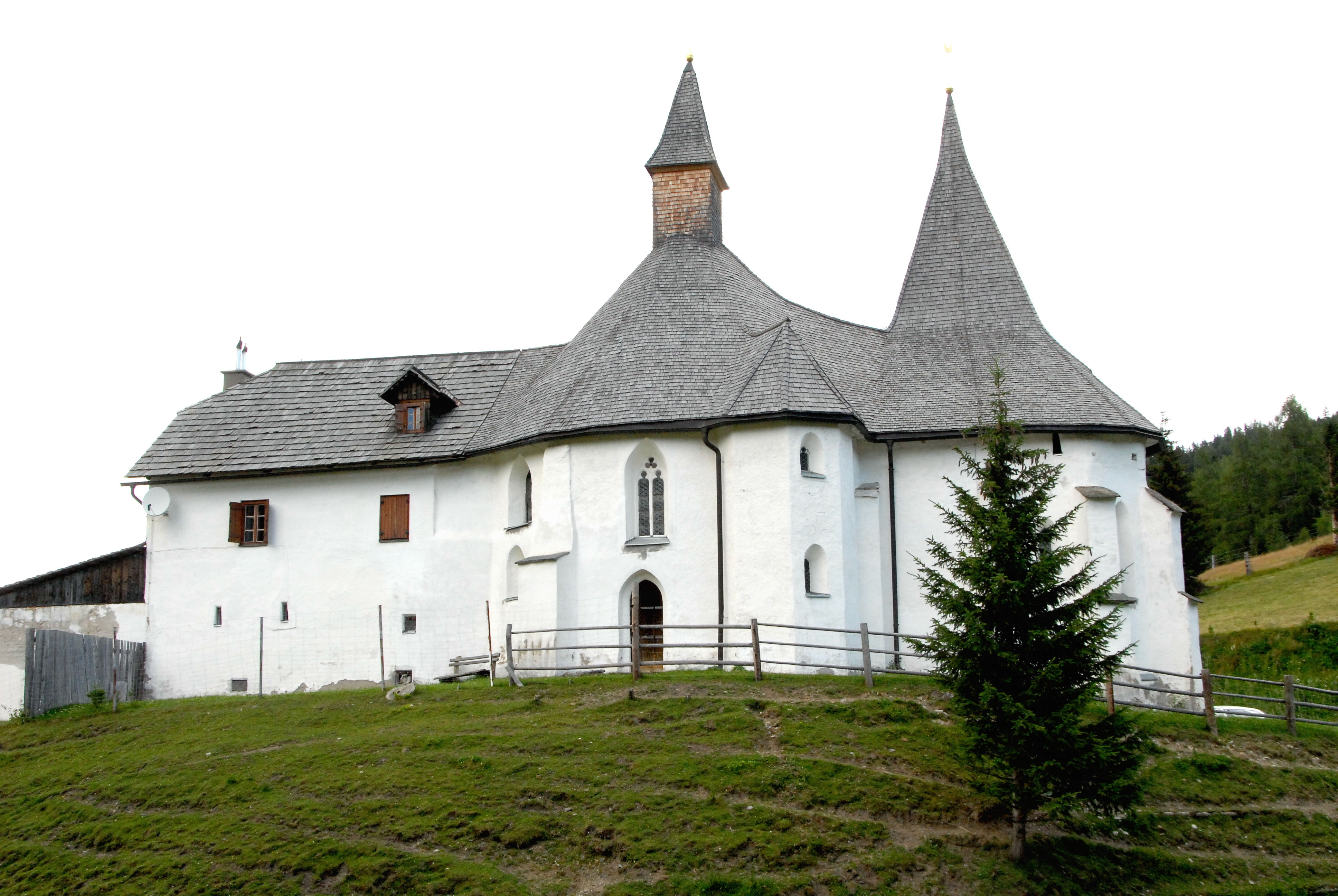 Filial church Saint John the Baptist in Flattnitz, municipality Glödnitz, district Sankt Veit, Carinthia, Austria, EU